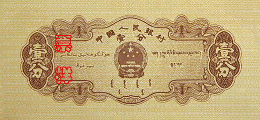 Back of second series 1 fen renminbi